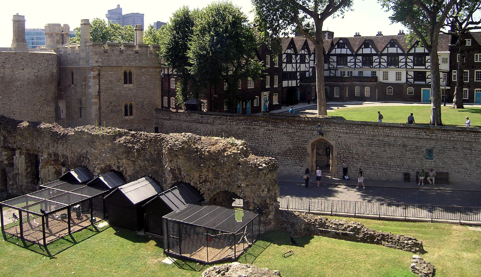 The Tower of London, England. The photograph shows cages for the ravens. The ravens wings are clipped.